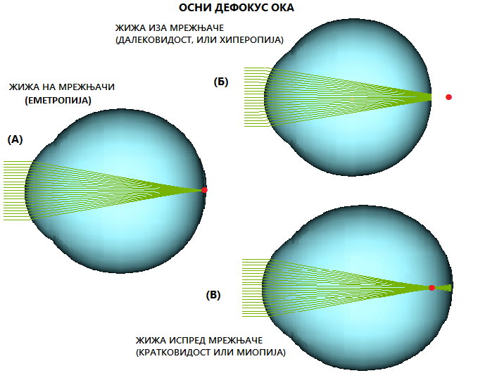 ДЕФОКУС ОКА